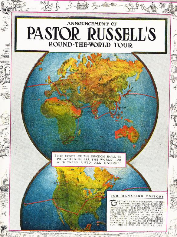 Pastor Russell's Worldtour 1912/13 (The Watch Tower, 1 January 1912)